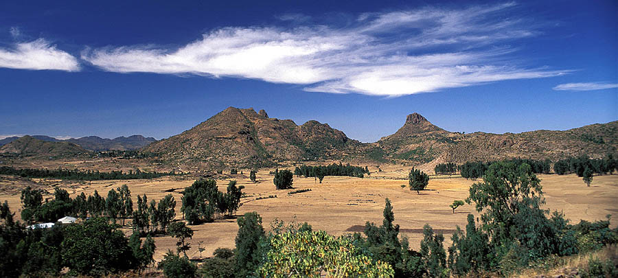 A typical landscape of Tigray region, Ethiopia near the archaeological site of Yeha